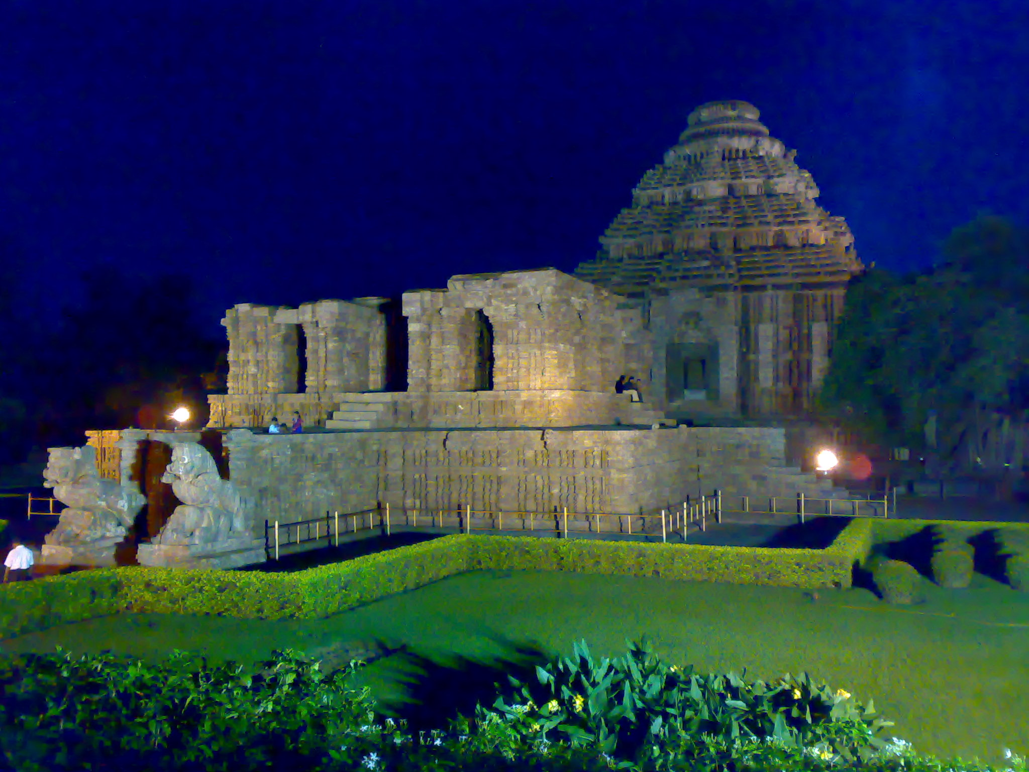 world famous wheel of konark temple at night konark is a world heritage site situated in odisha,india